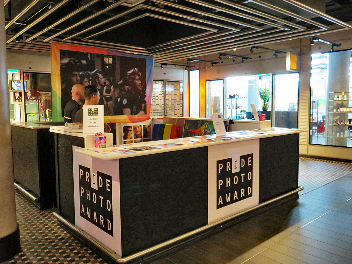 Information stand at the Pride Photo Award exhibition in the Lil'Amsterdam passage, July-August 2019.